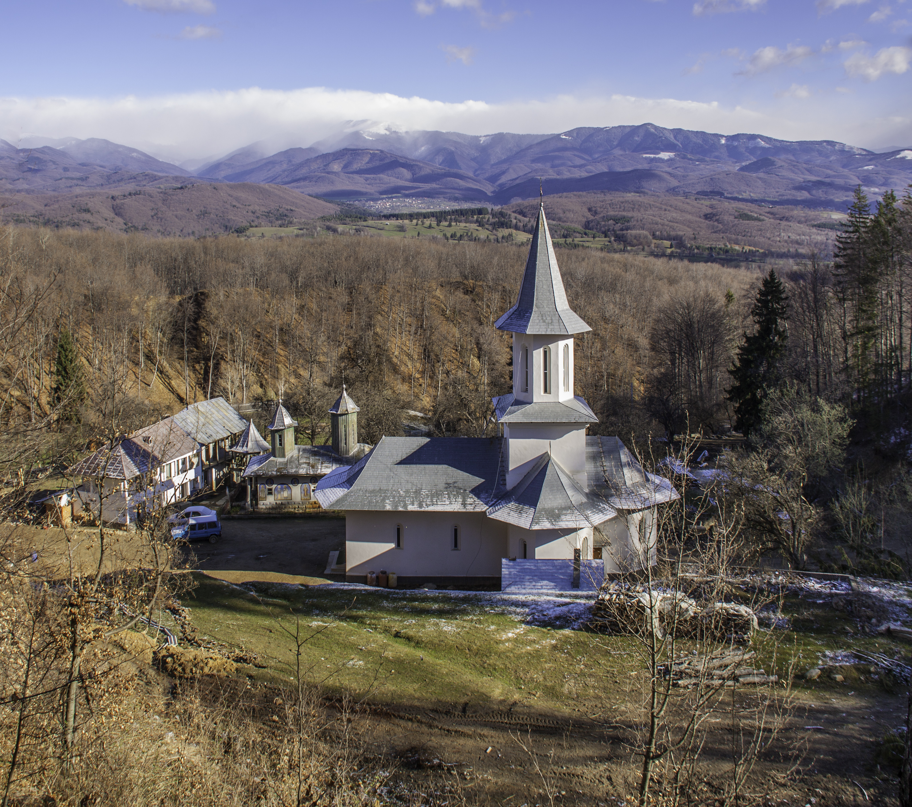 Wooden church in Schitu Ciocanu, Bughea de Jos, Argeș county, Romania